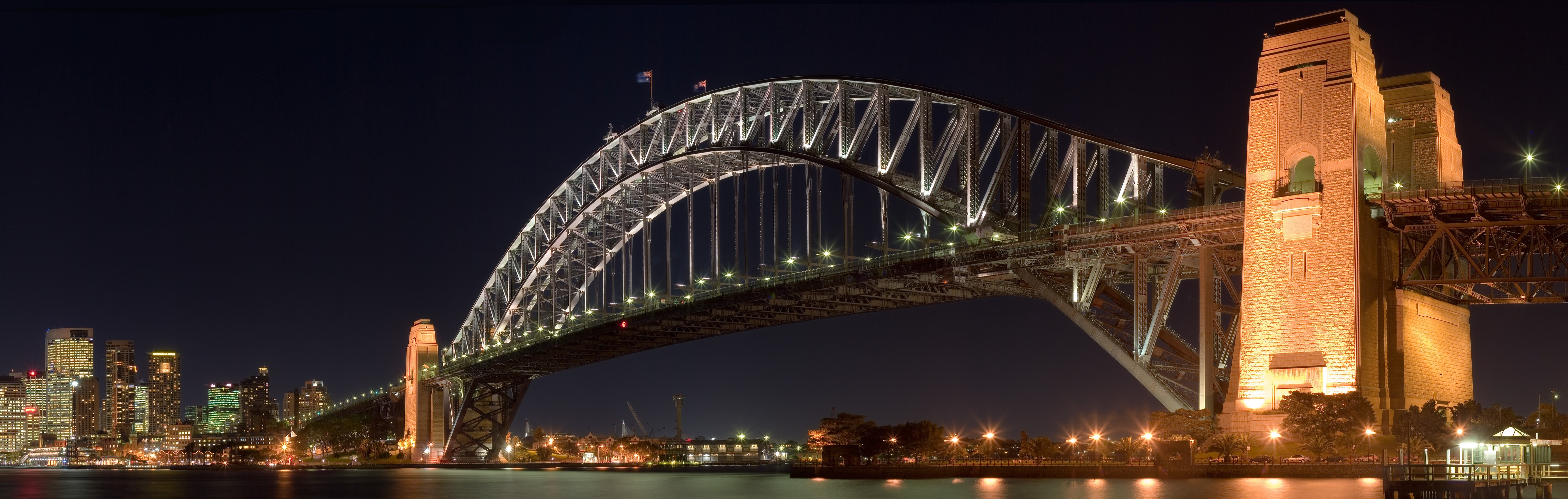 Sydney Harbour Bridge as seen from the North Shore suburb of Kirribilli.